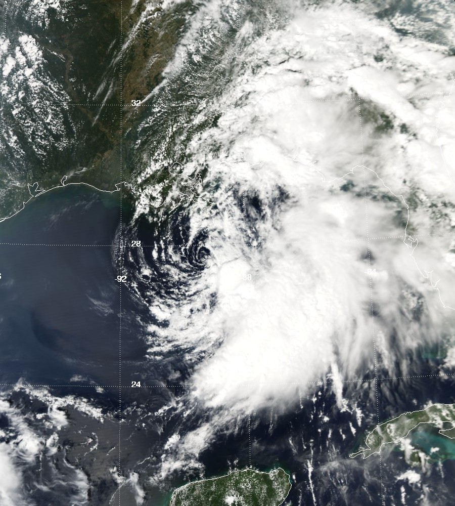 This image shows Tropical Storm Hanna in the Gulf of Mexico on September 13 at 1920 UTC. The storm's maximum sustained winds at the time were around 50 mph and it's minimum central pressure was about 1003 mb.